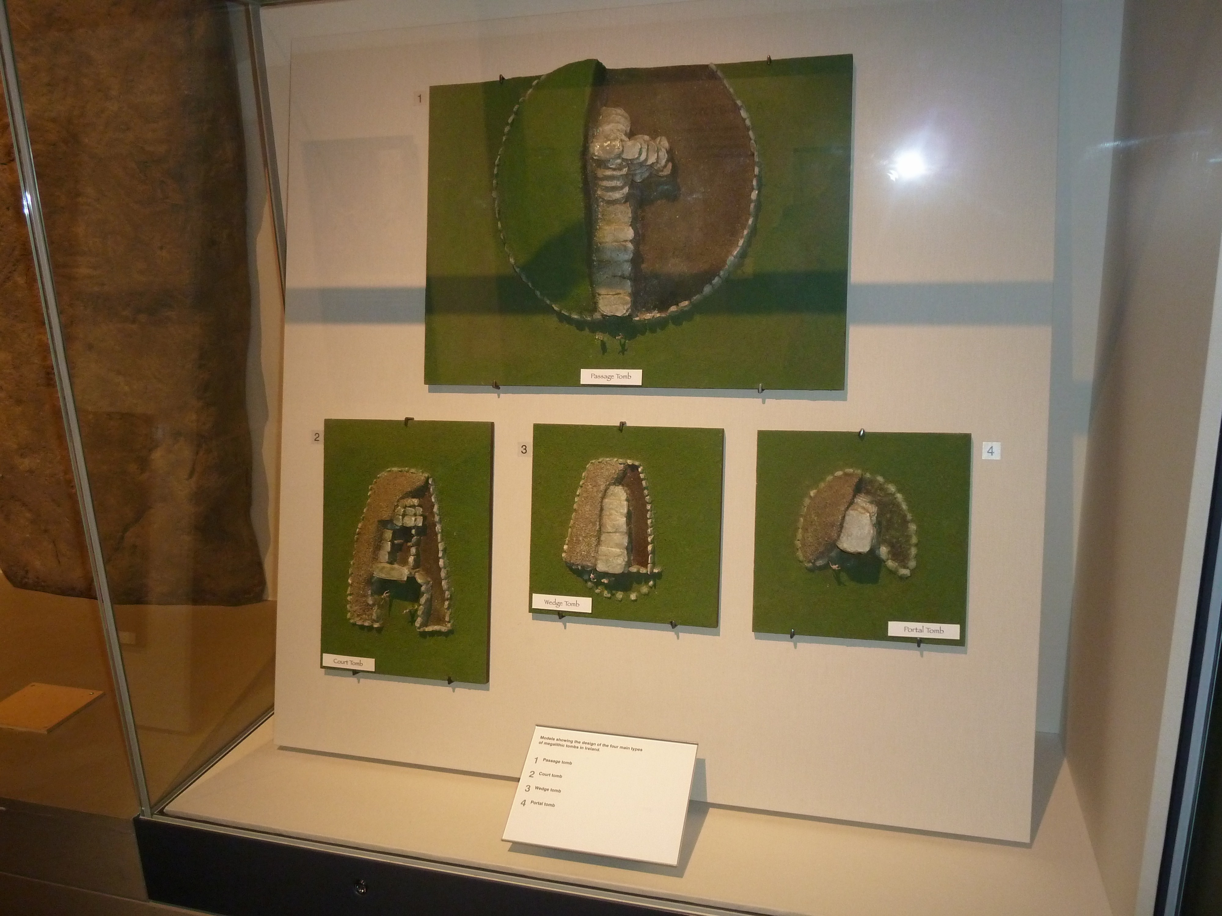 Ulster Museum Models illustrating Meglithic tombs of Neolithic Age though to Bronze Age (in Ireland) They are : Passage tomb, Court tomb, Wedge tomb, Portal tomb